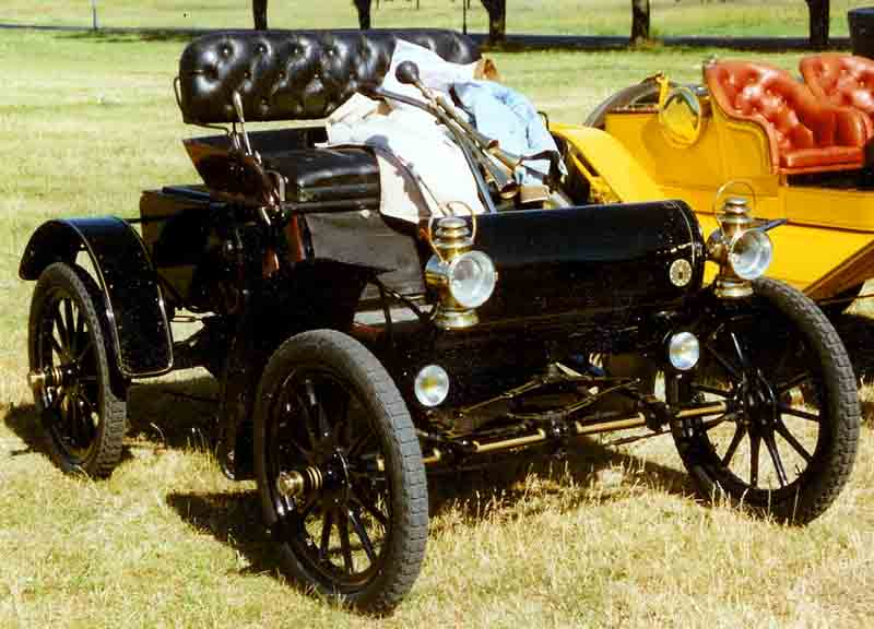 Oldsmobile Model B Curved Dash Runabout 1905